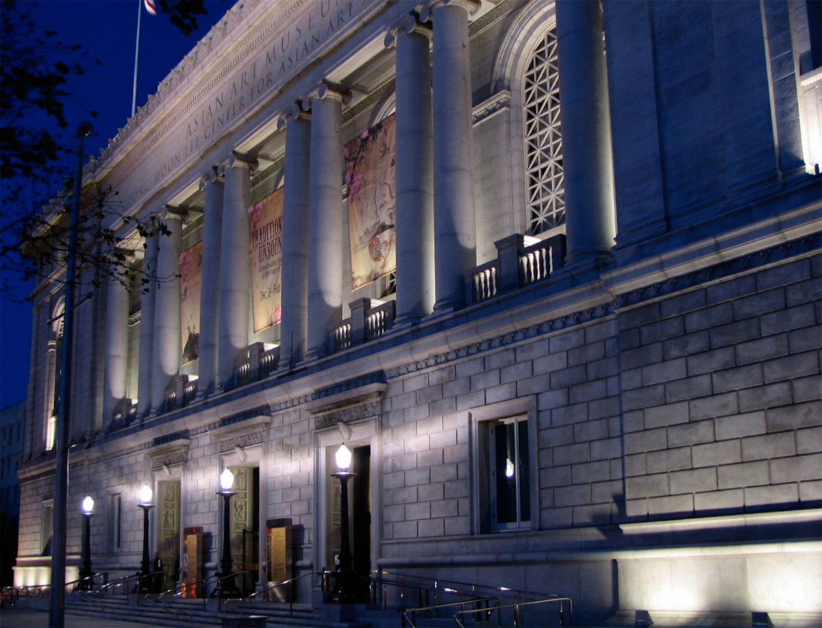 Asian Art Museum of San Francisco, the neoclassical facade. 1=1/19/2006